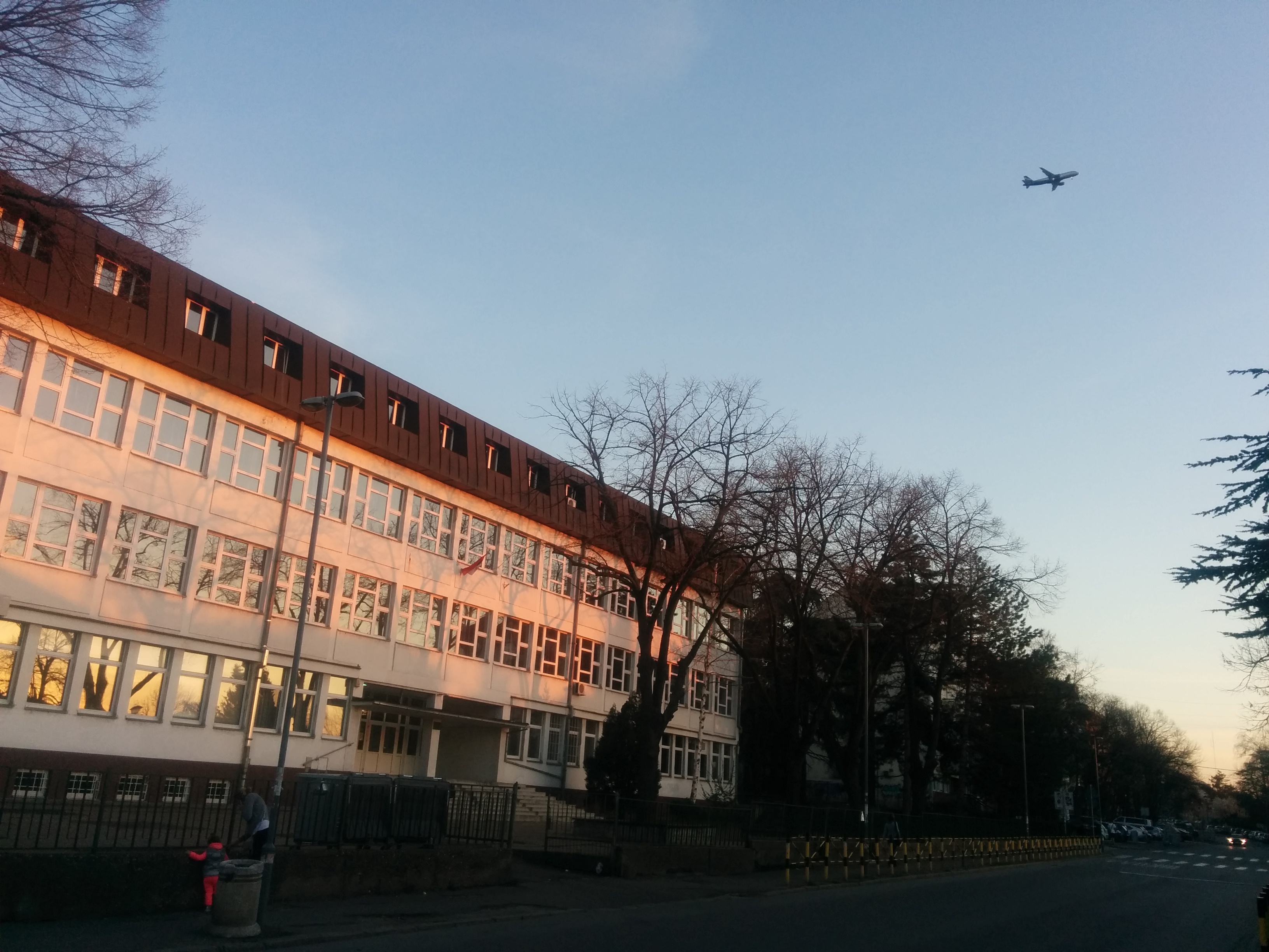 thirteen Belgrade gymnasium